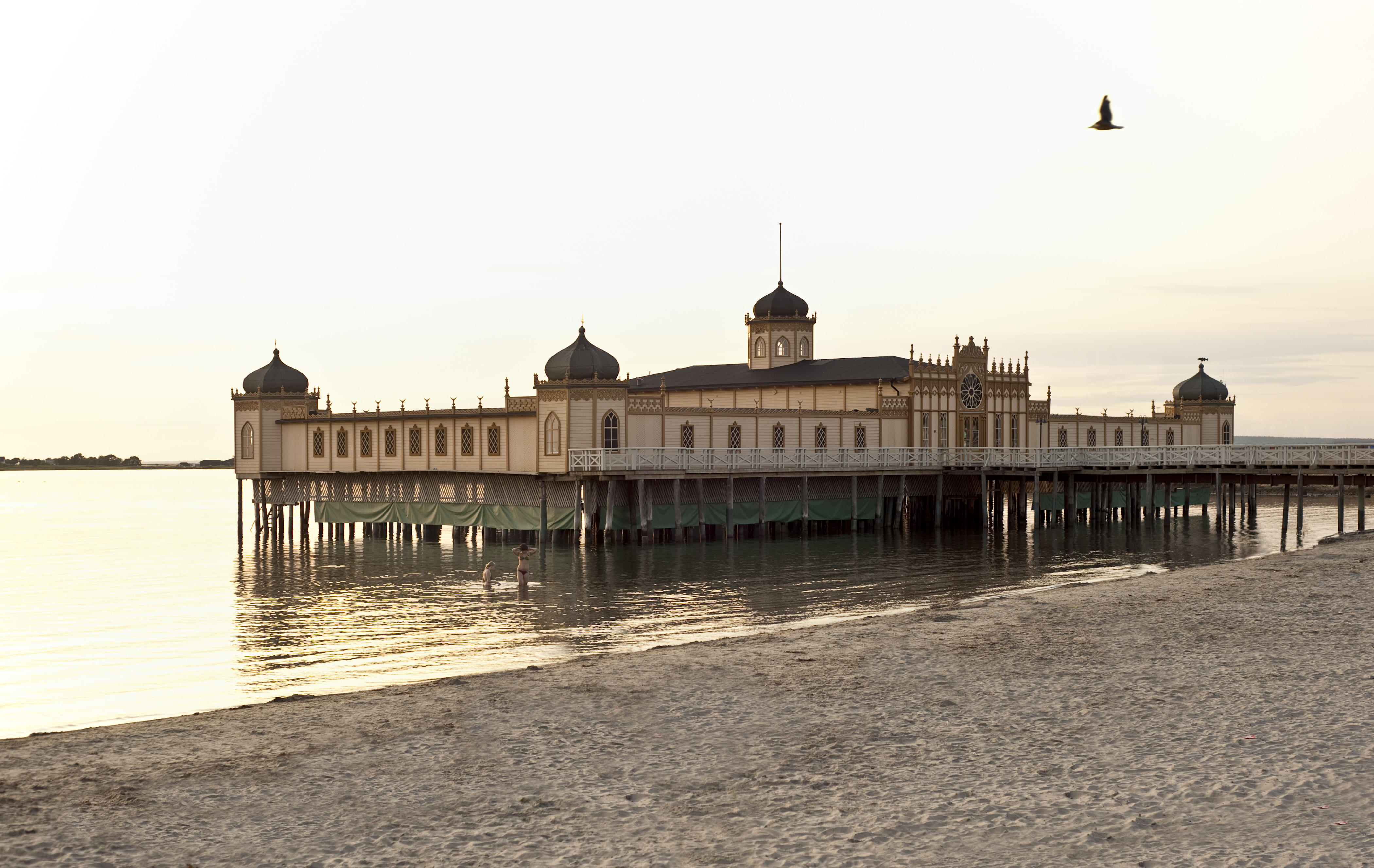 This picture was shot early night at the beach in front of the Varbergs Kallbadhus (open-air bath). Sweden.